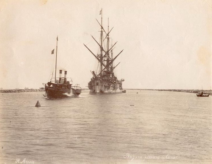 Death of Admiral Courbet